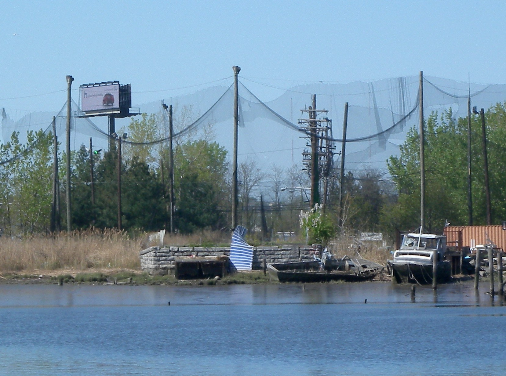 Looking north from Trolley Park across Hackensack River at East Rutherford pier of former trolley line on a sunny midday.